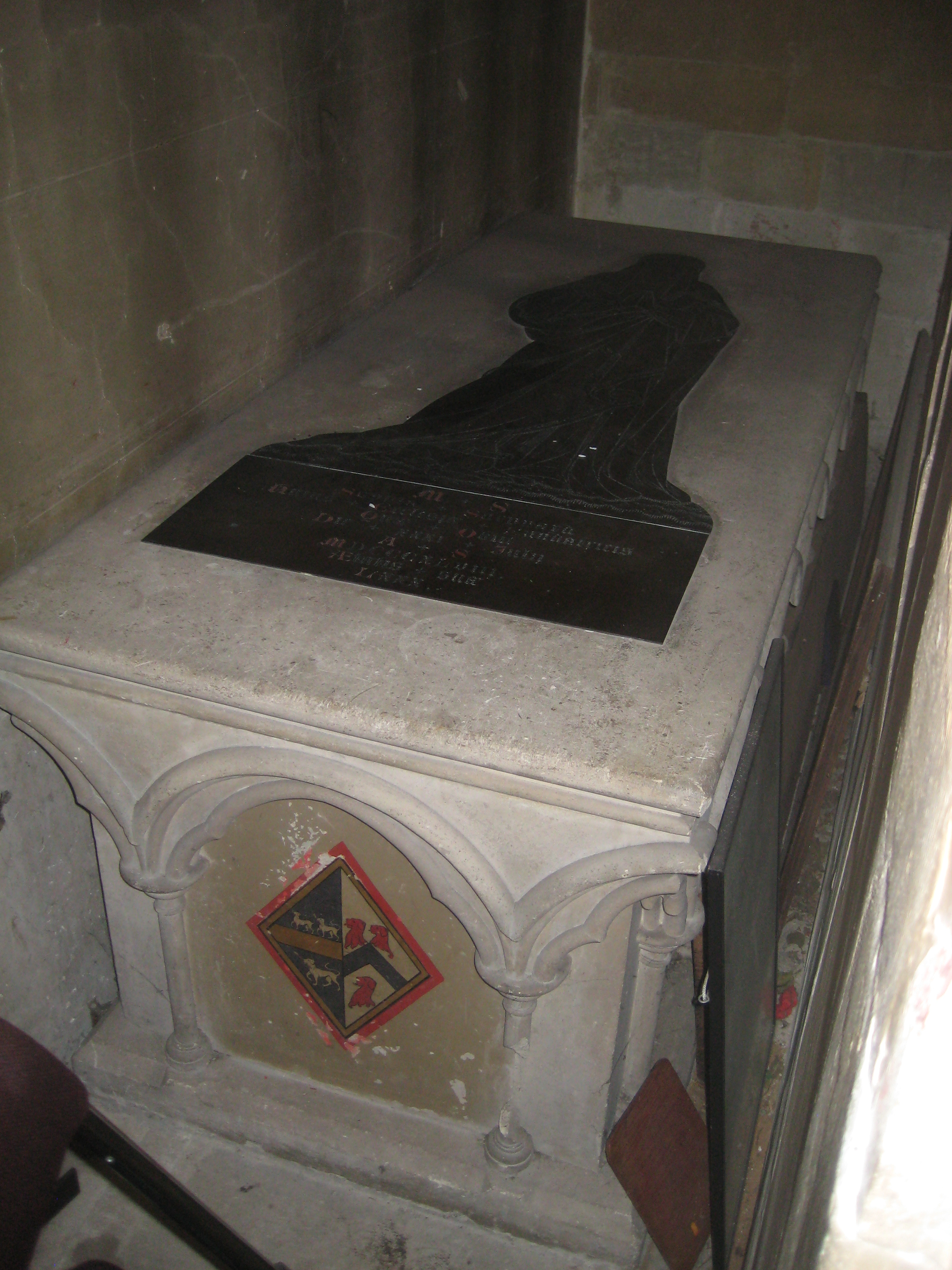 Cenotaph of Sophia Sheppard (d. 1848) inside the chantry chapel of William Waynflete in Holy Trinity Church, Theale, Berkshire. Sophia Sheppard was the main benefactor of Holy Trinity Church, having donated £39,000 to its building. She was also the sister of Martin Routh (1755–1854), President of Magdalen College Oxford, who was responsible for relocating the chantry chapel from Magdalen College to the new church at Theale.